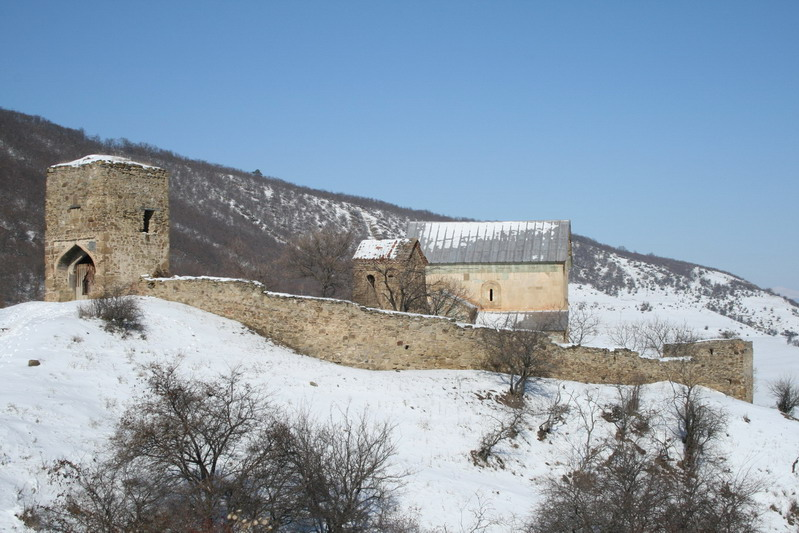 Maglaant Church, Georgia